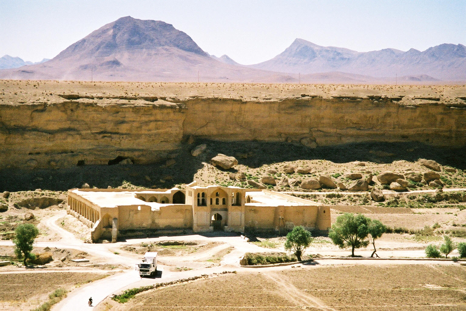 Caravanserai in Izadkhast, Iran